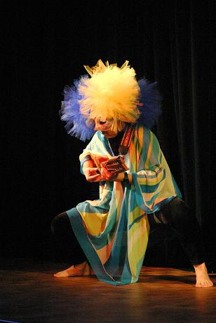 Danza Charango Mari Sano (Carolina Herrera)